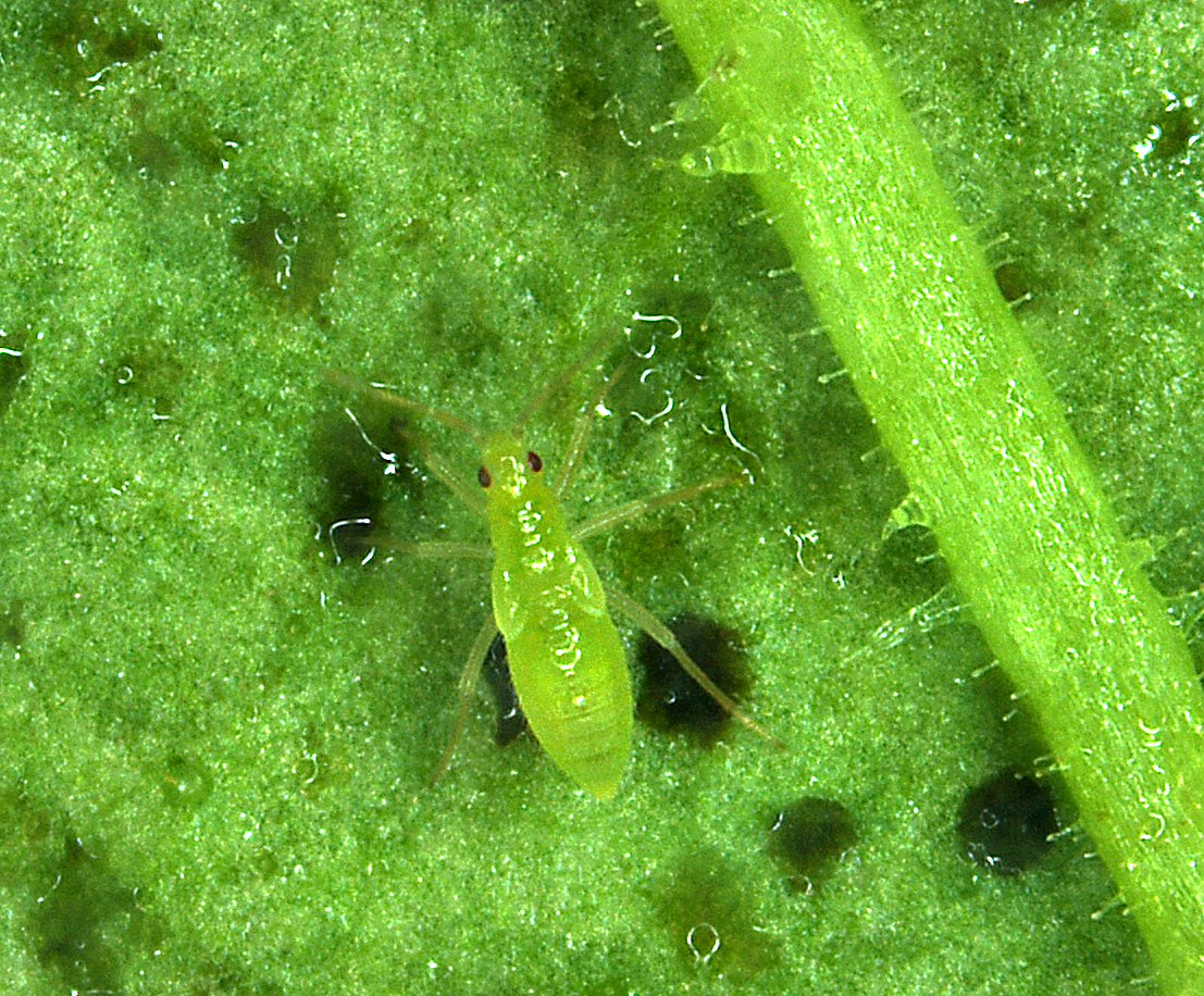 Tupiocoris notatus nymph on Nicotiana attenuata leaf